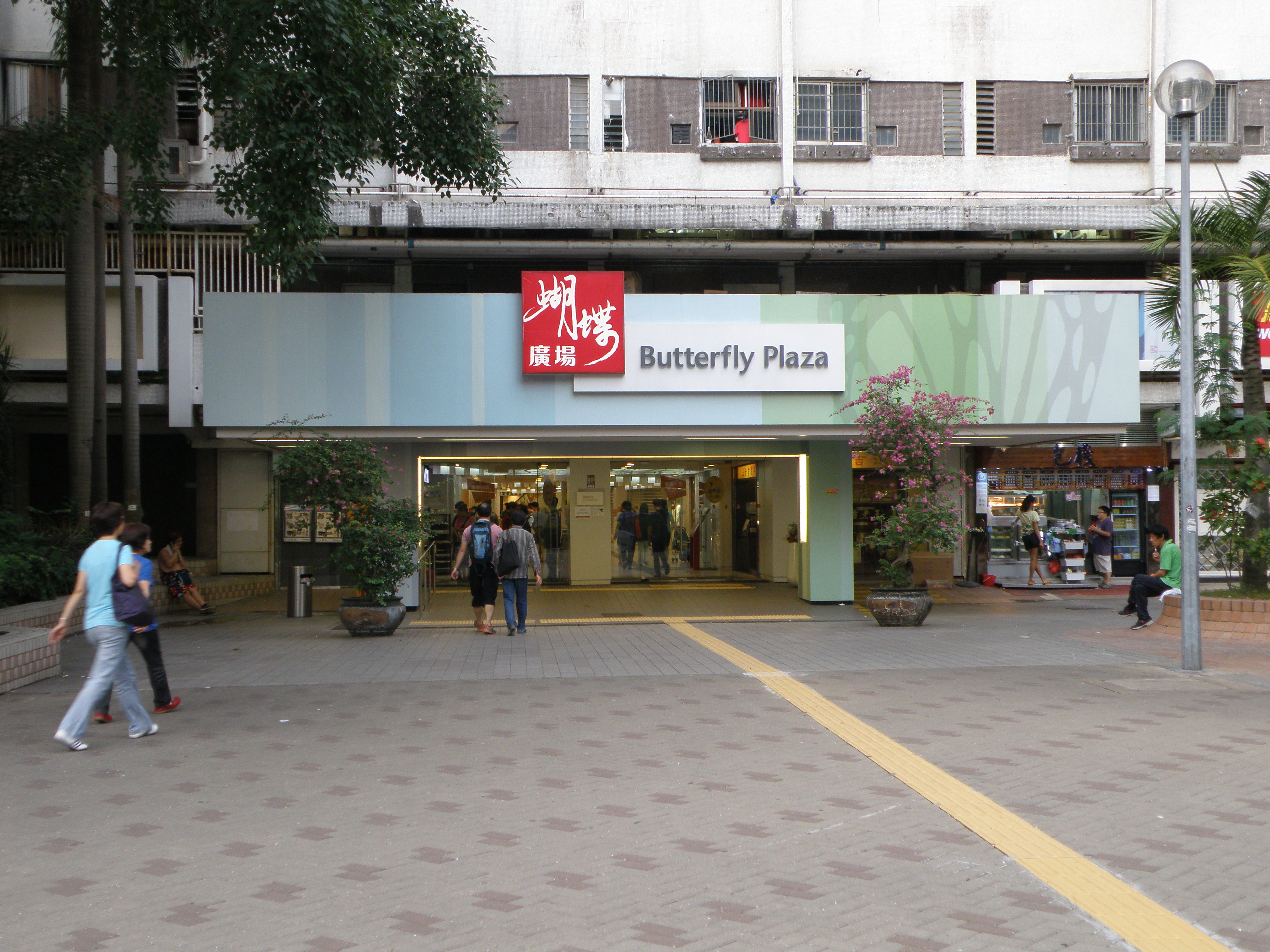 Butterfly Plaza